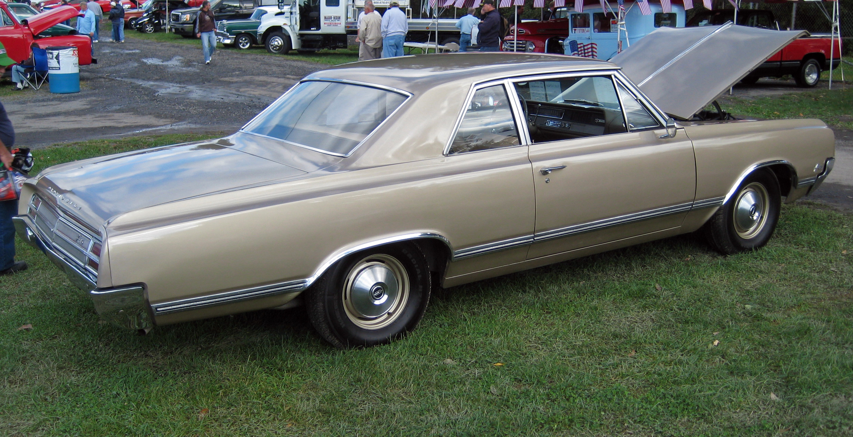 1965 Oldsmobile F-85 coupe seen at Fall Carlisle in 2010.